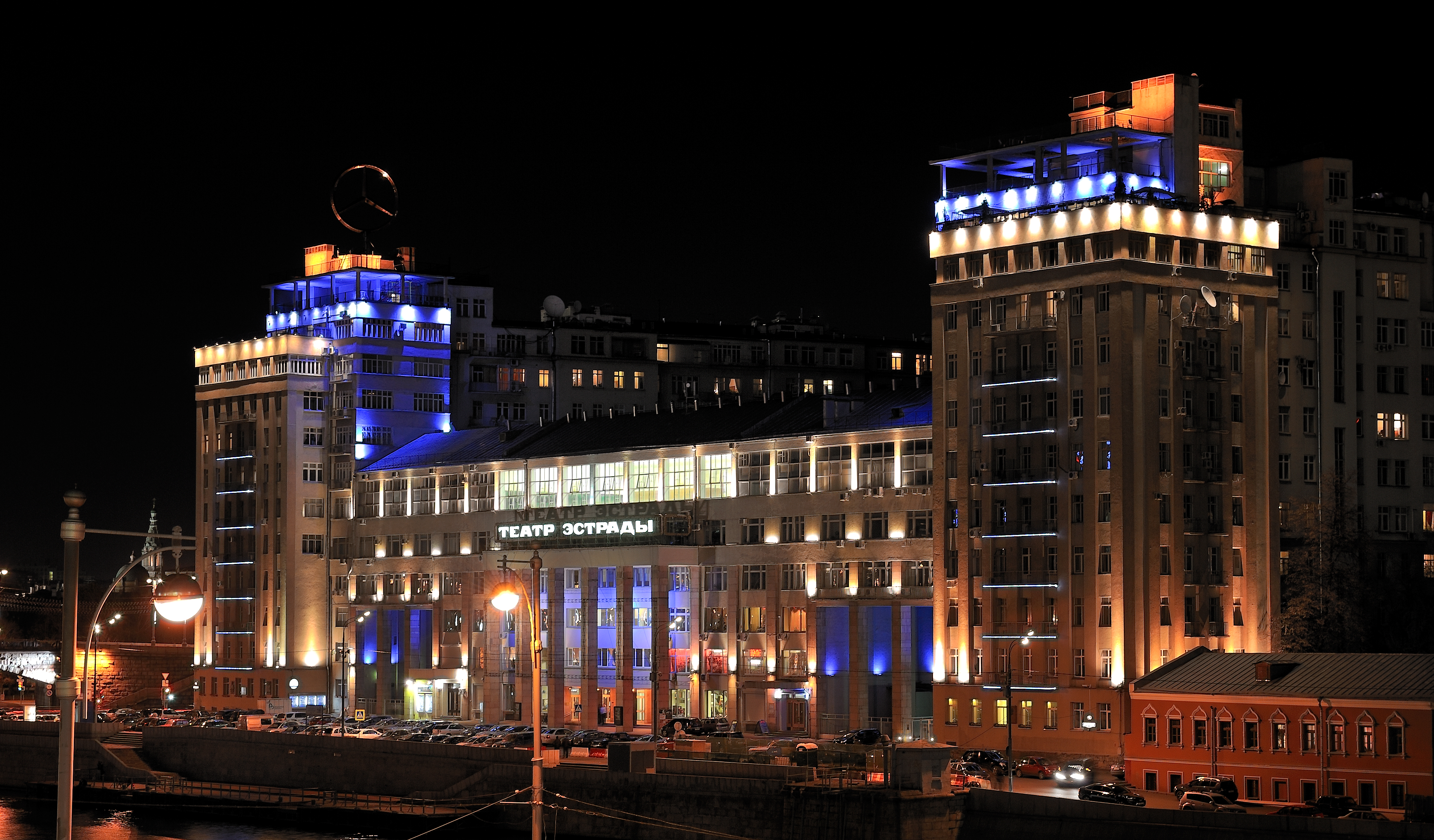 Moscow Theatre Estrada